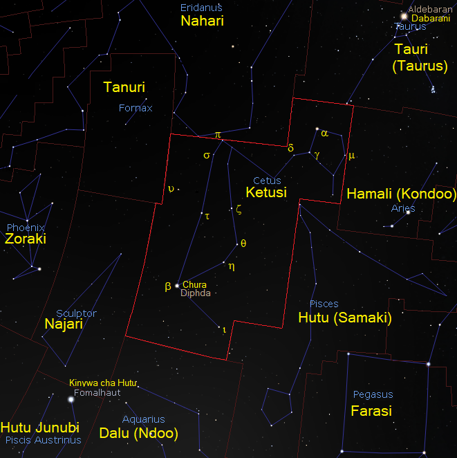 Constellation Cetus as seen from Tanzania, Swahili labelled Kiswahili: Kundinyota Ketusi (Cetus) jinsi inavyoonekana kutoka Tanzania, majina kwa Kiswahili